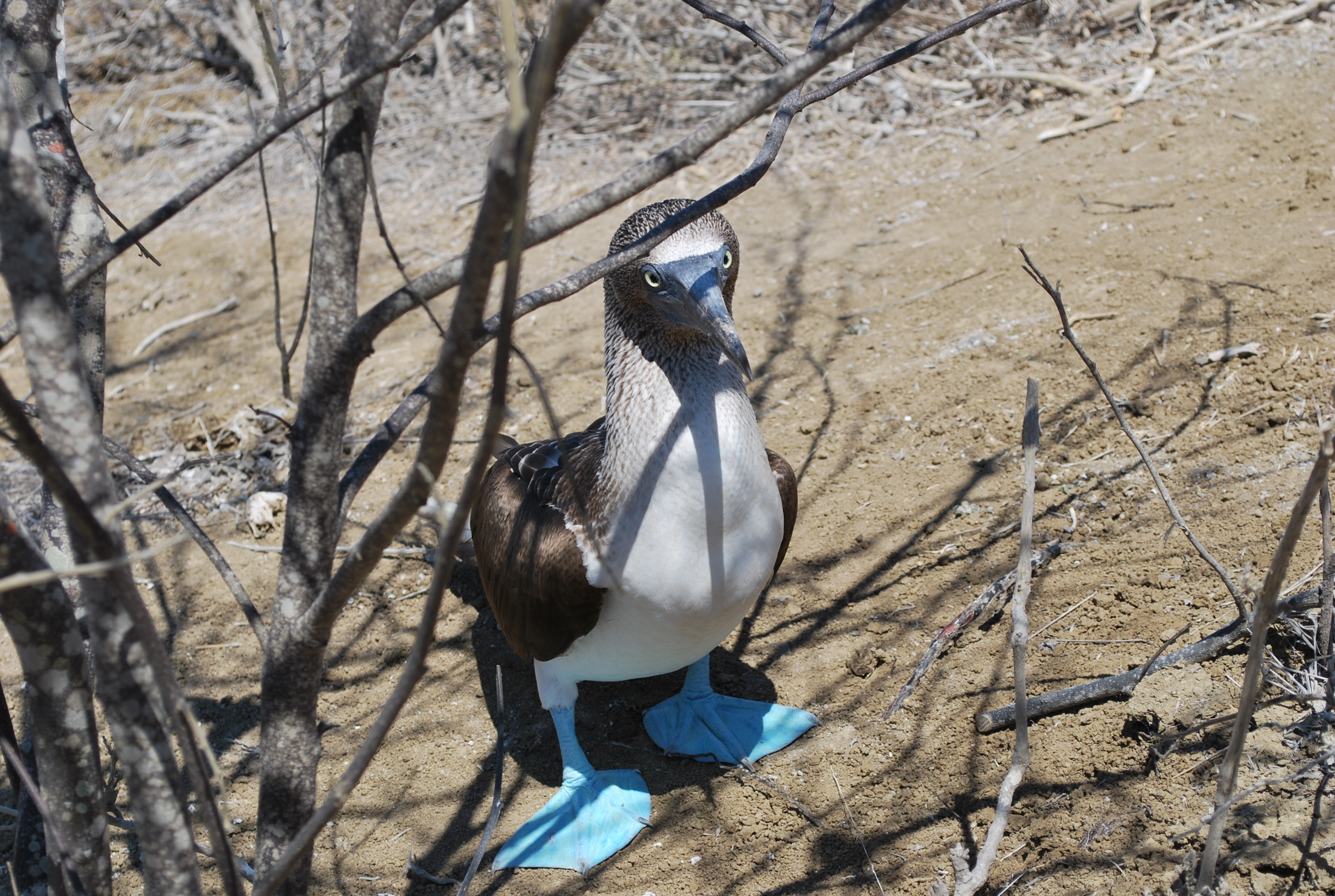 Picture of Blue-footed Booby at Isla de la Plata, Ecuador.